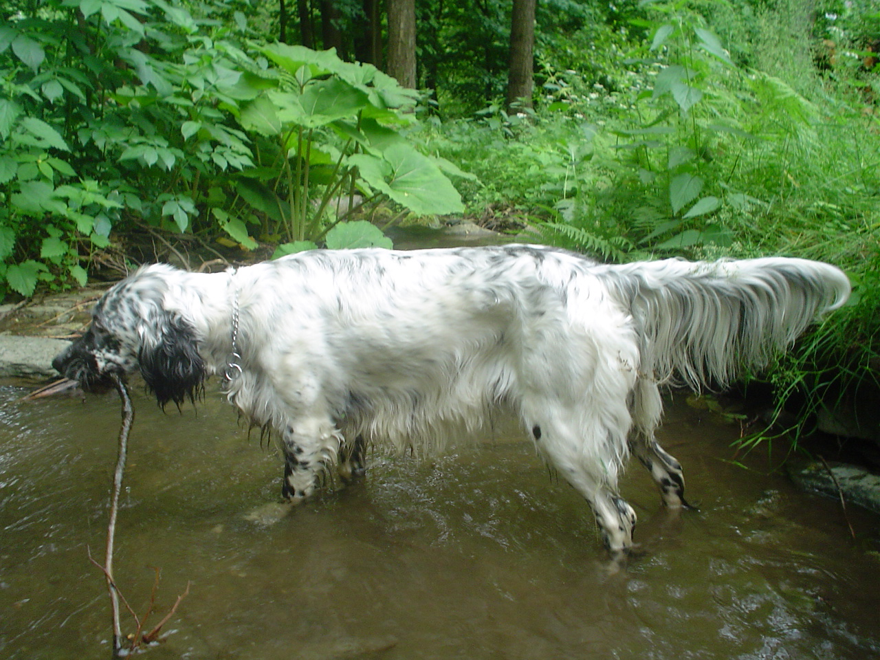 English setter Gucci z Prostejovska